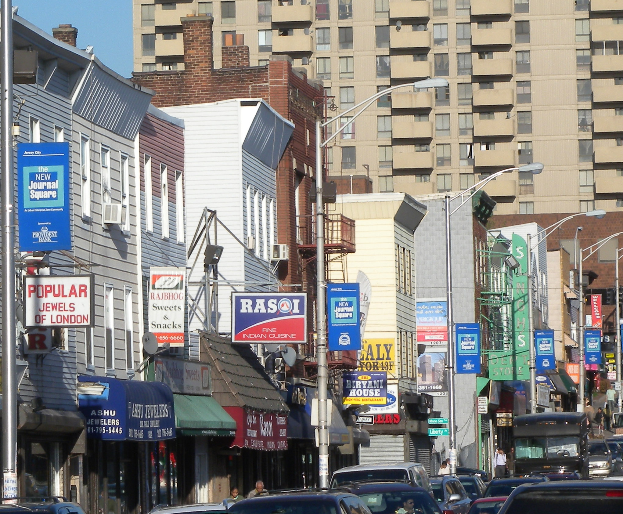 Looking east along Newark Street (India Square) towards JFK Blvd on a sunny late afternoon.